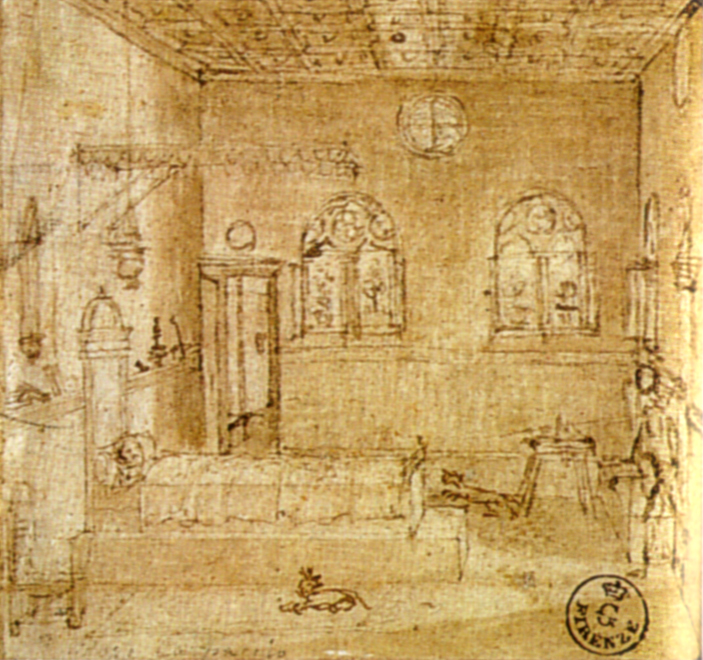 CARPACCIO, Vittore The Dream of St Ursula Drawing Galleria degli Uffizi, Florence